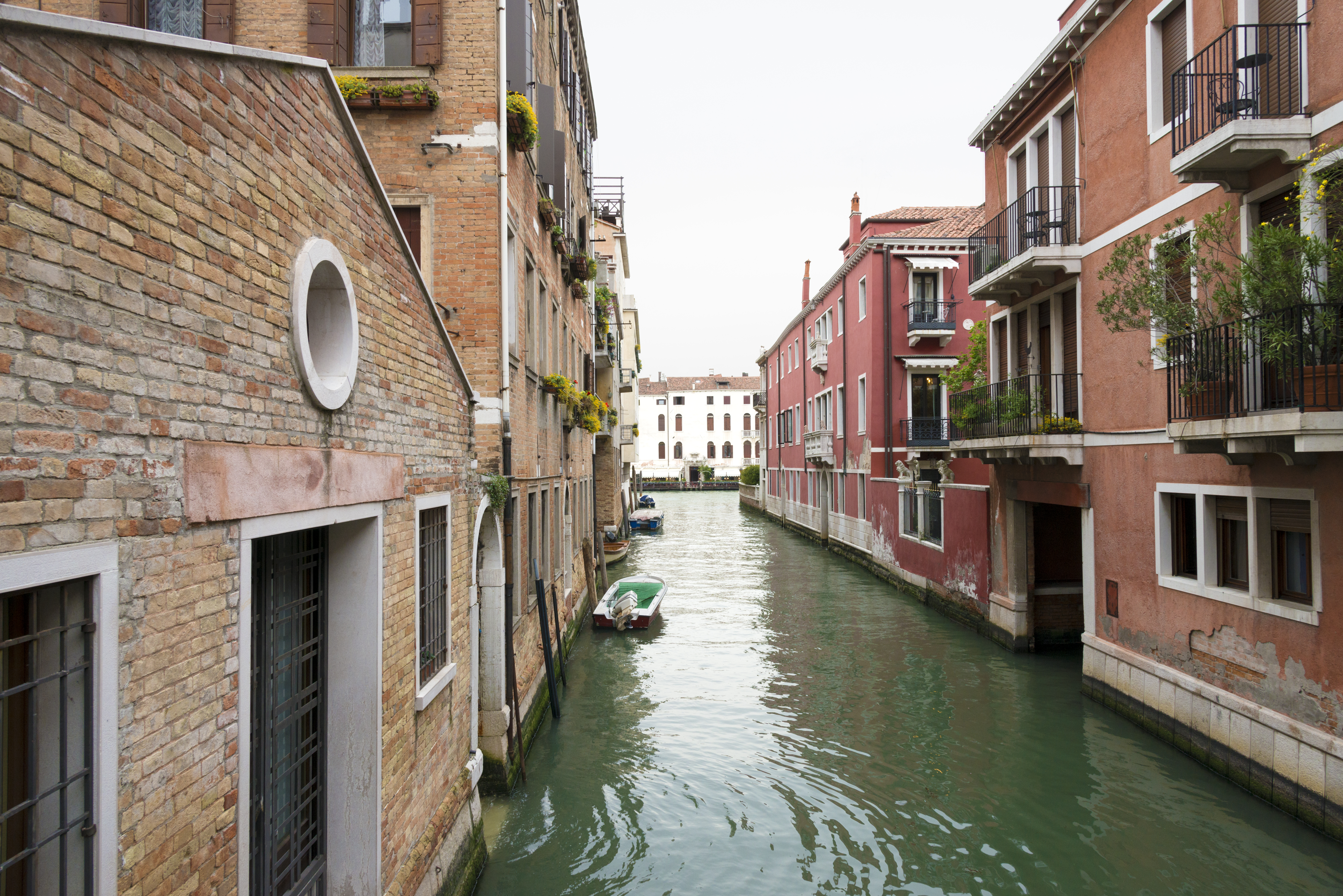 Rio marin view on the “Ponte de la Bergami”, to the Grand Canal. Venice